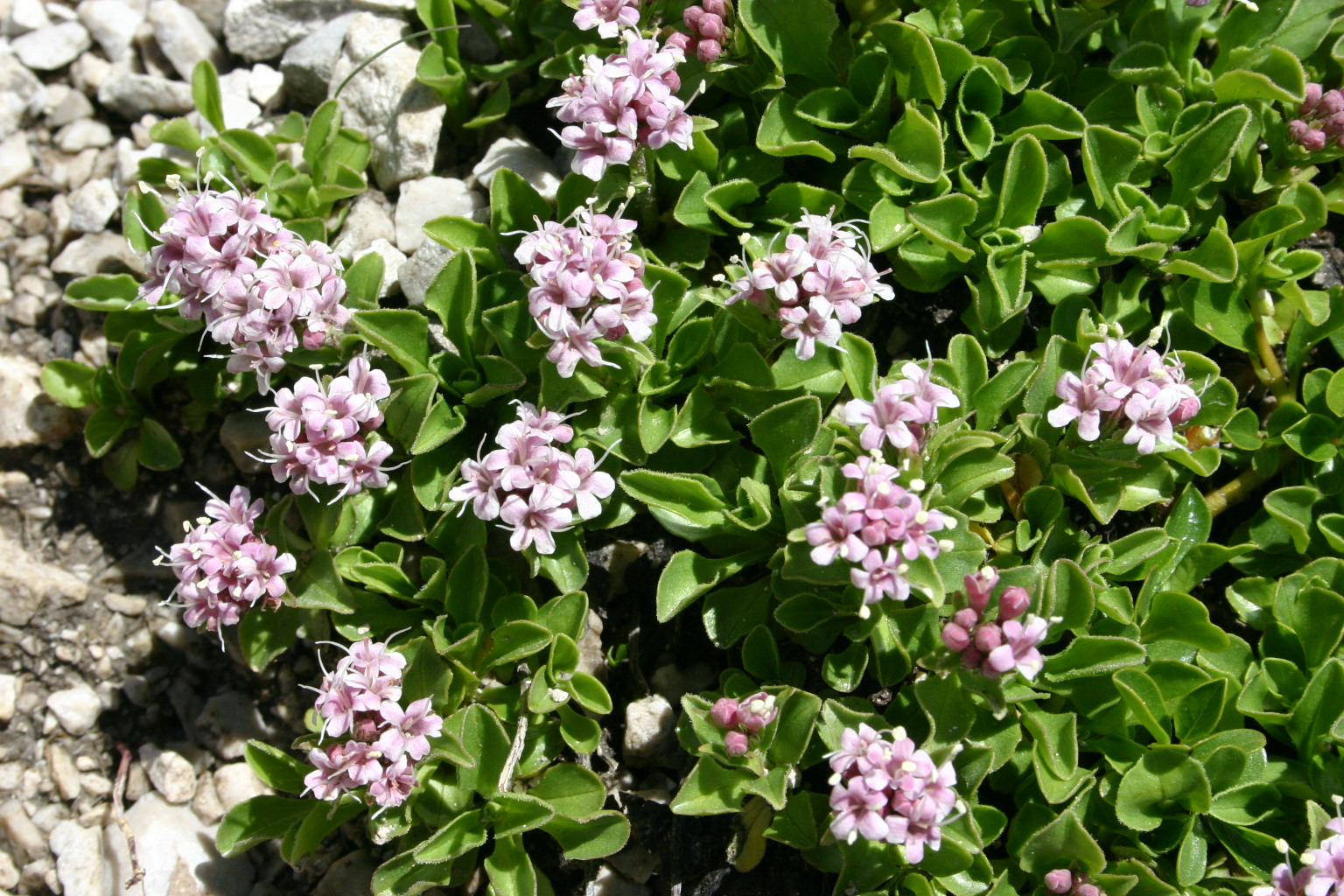 Valeriana supina